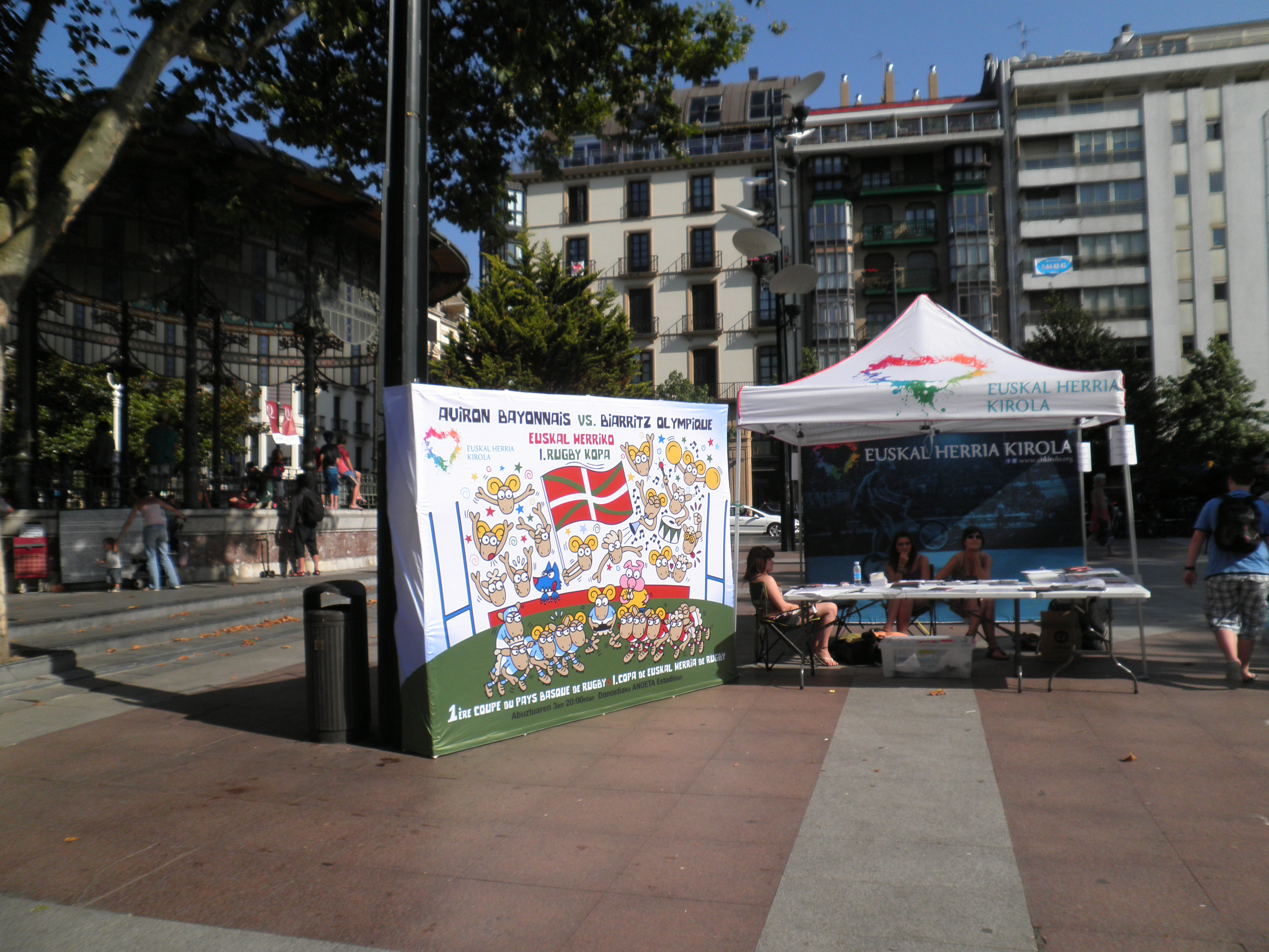 Promoting basque sports selection in Donostia and, in the left, banner promoting rugby festival.